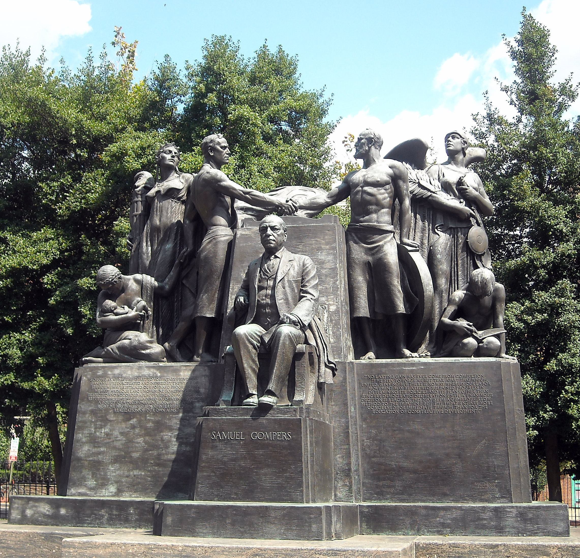 Samuel Gompers Memorial near 11th and Massachusetts Avenue, NW in Washington, D.C. Full text: So long as we have held fast to voluntary principles and have been actuated and inspired by the spirit of service, we have sustained our forward progress, and we have made our labor movement something to be respected and accorded a place in the councils of the Republic. Where we have blundered into trying to force a policy or decision, even though wise and right, we have impeded if not interrupted the realization of our own aims. (left panel) No lasting gain has ever come from compulsion. If we seek to force, we but tear apart that which united, is invincible. There is no way whereby our labor movement may be assured sustained progress in determining its policies and its plans other than sincere democratic deliberation until a unanimous decision is reached. This may seem a cumbrous, slow method to the impatient, but the impatient are more concerned for immediate triumph than for the education of constructive development. (right panel)